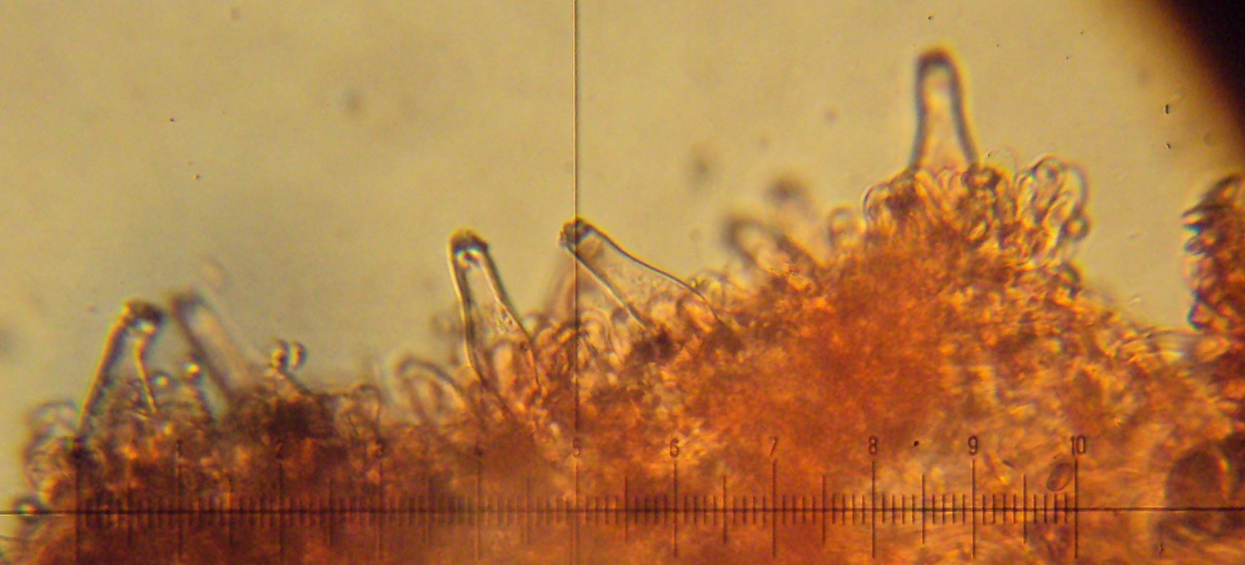 Mikroskopic image of pleurocystidia of Inocybe lilacina from Orinda, California, USA Growing under Cedrus deodora in a garden in partial shade, pines and oaks nearby.